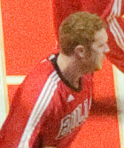 Brian Scalabrine warms up before the May 26, 2011 NBA Eastern Conference finals game against Miami Heat.)